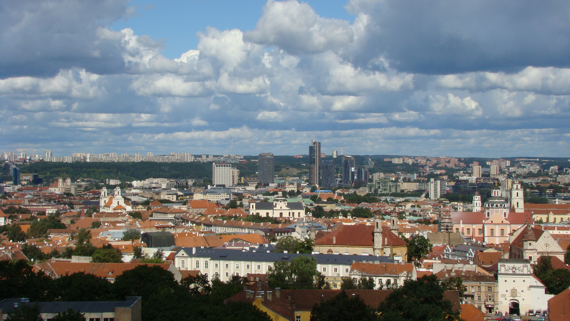 Panoramic view of Vilnius (Senamiestis,Centras, Sheshkines, Baltupiai)